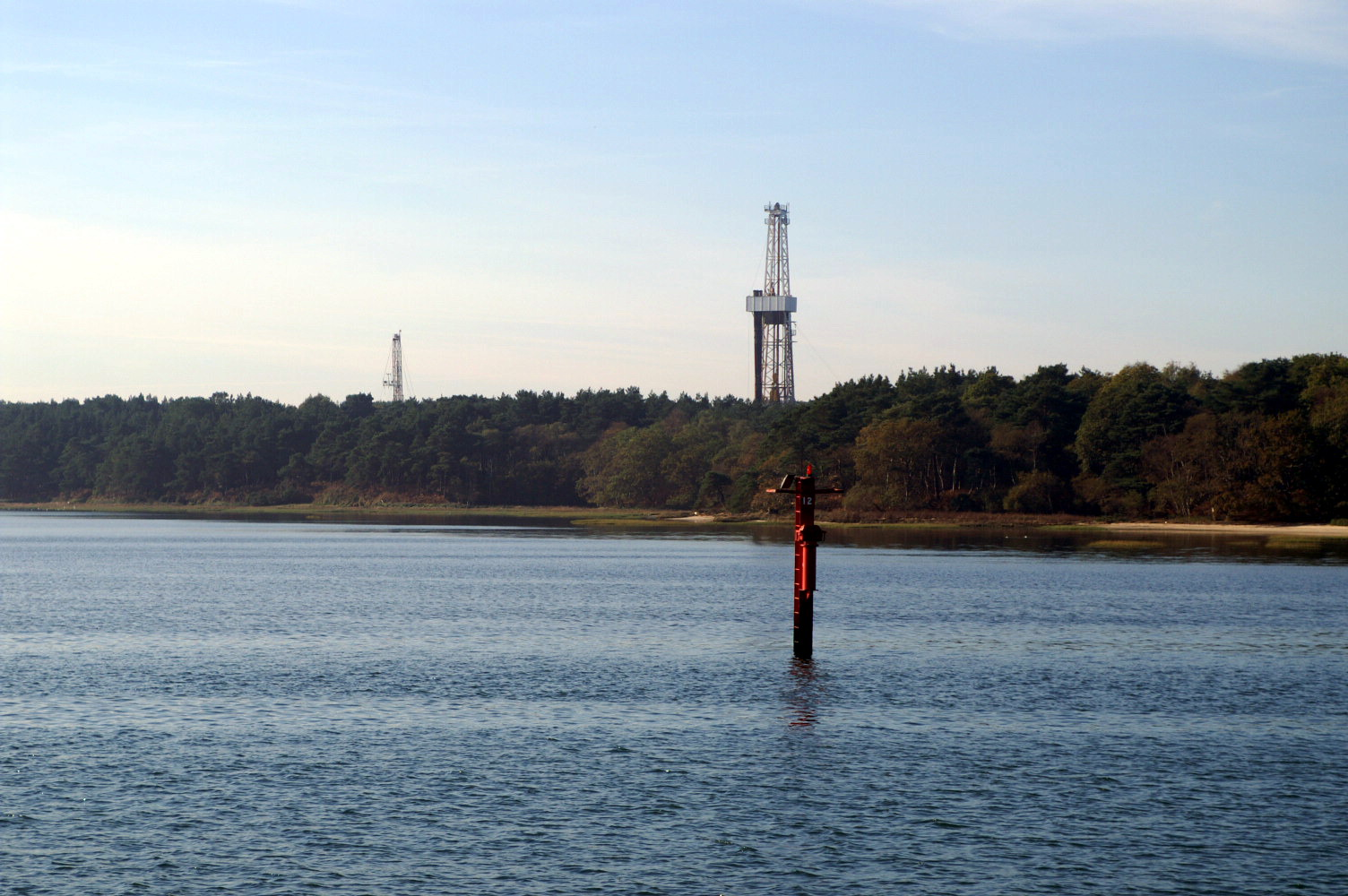 Wellsites M and F, oil wells on the Goathorn Peninsula in the Wytch Farm oilfield, Poole Harbour, Dorset, from the north-east.